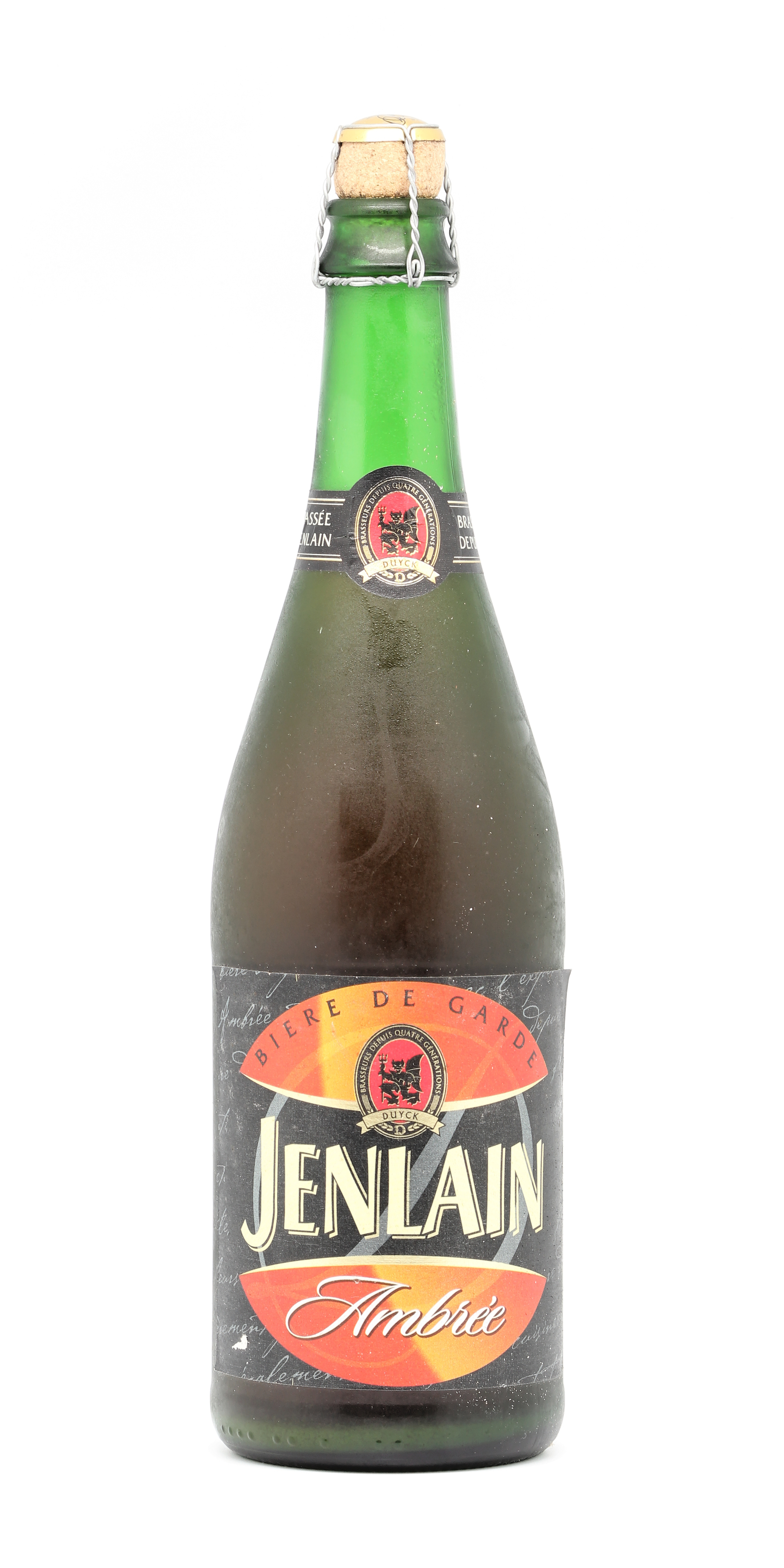 A bottle of Jenlain ambrée 75cl